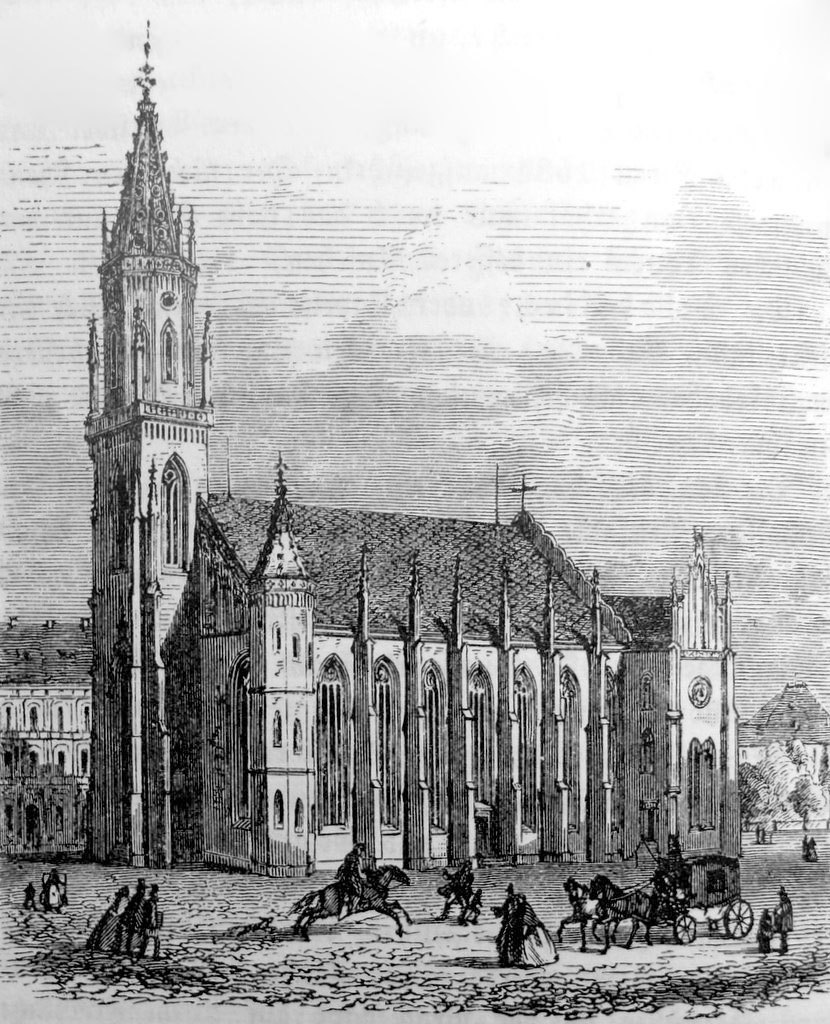 South view of the Old Trinity Church in Leipzig